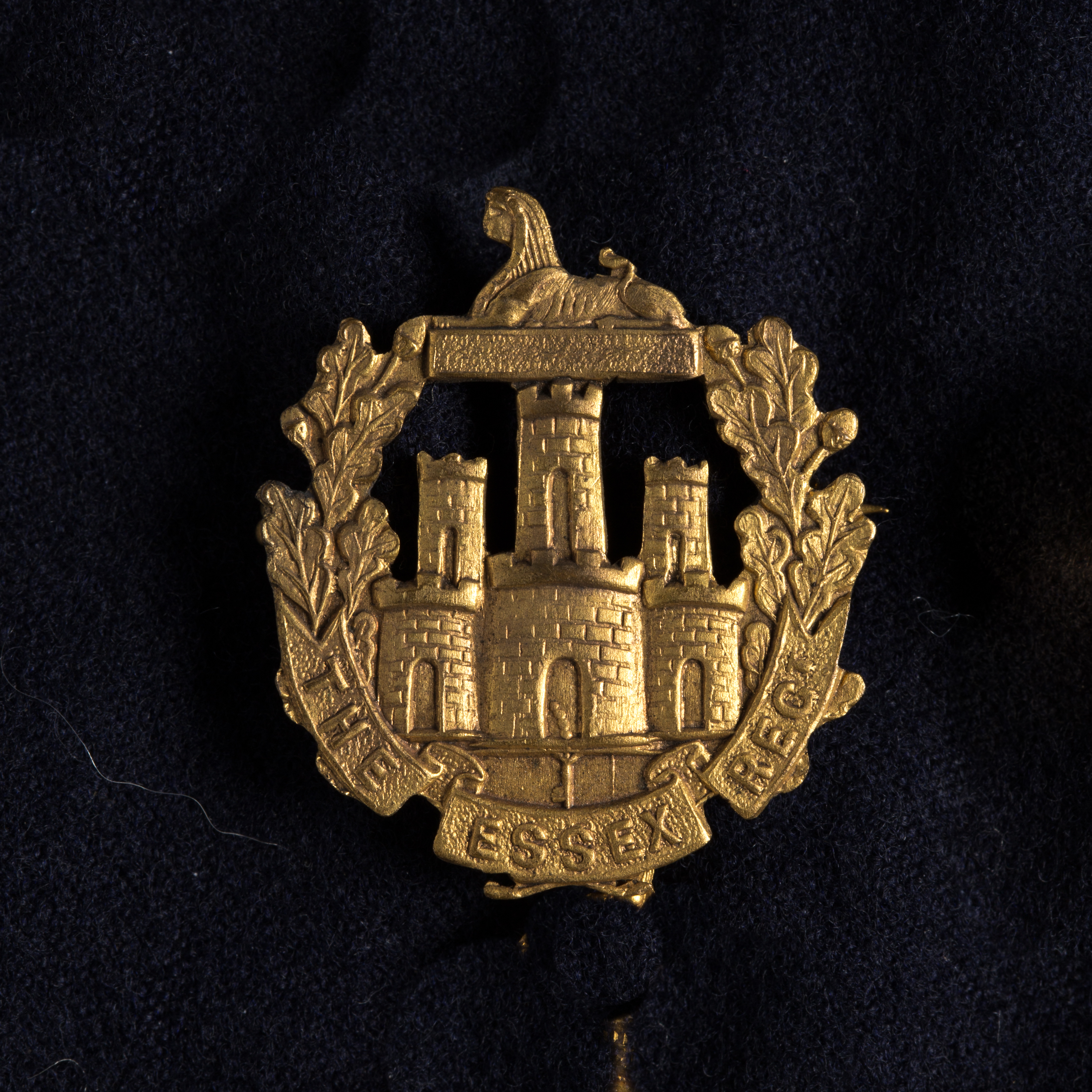 Collection of 17 WW1 badges attached to a piece of navy blue twill fabric (16 British badges, 1 Australian badge) From top- (see Physical Aspects for badge descriptions) .1 The Suffolk Regiment collar badge .2 The Essex Regiment collar badge .3 The Inns of Court OTC collar badge .4 Irish Guards collar badge .5 Royal Engineers collar badge .6 London Scottish Regiment cap badge .7 The Essex Regiment cap badge .8 The (Prince of Wales) badge .9 The Queen’s (Royal West Surrey) Regiment cap badge .10 The Bedfordshire Regiment cap badge .11 The City of London CAP BADGE .12 The King’s Royal Rifles Corps cap badge .13 Royal Artillery cap badge .14 Australian Commonwealth Military Forces cap badge .15 London Rifle Brigade cap badge .16 The King’s Own Royal Regiment cap badge .17 The King’s Royal Rifle Corps cap badge